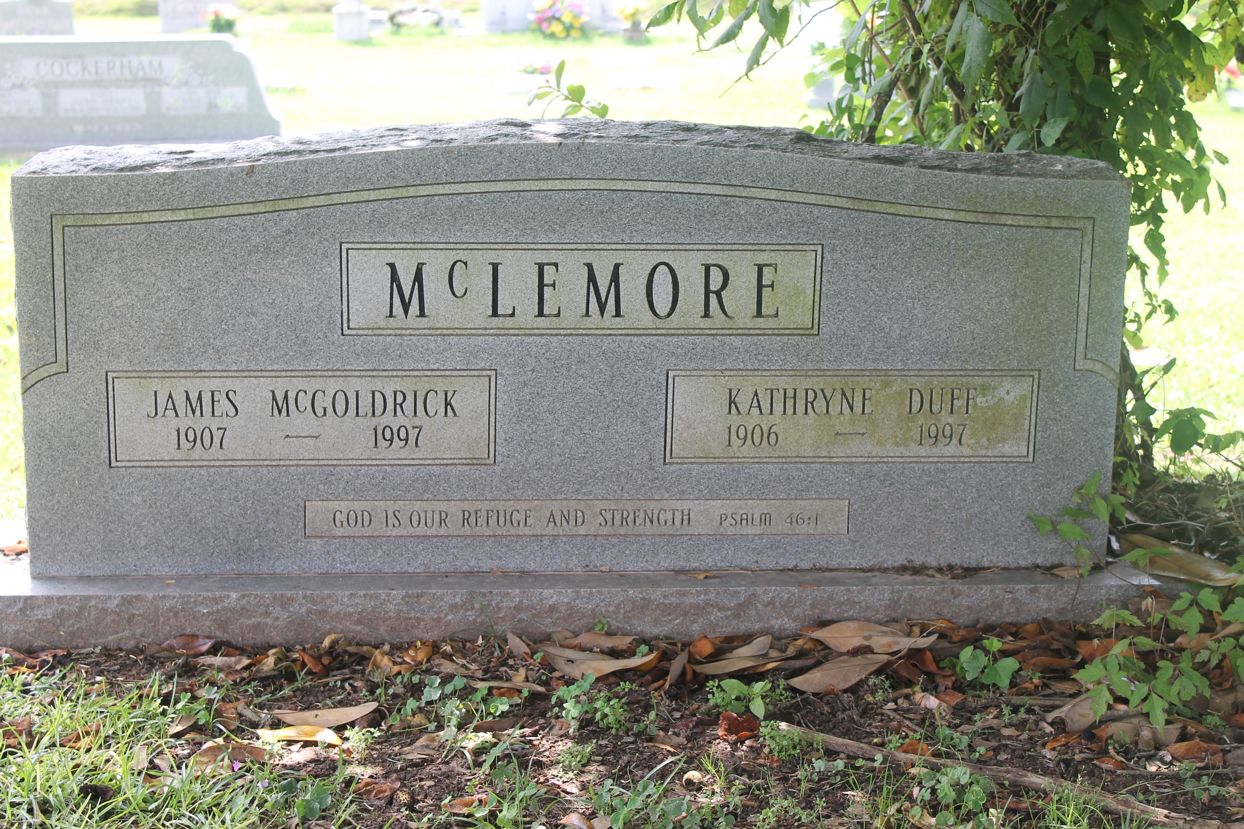 Grave of Louisiana politician and businessman James M. and Mrs. McLemore in Springville Cemetery, Coushatta, LA